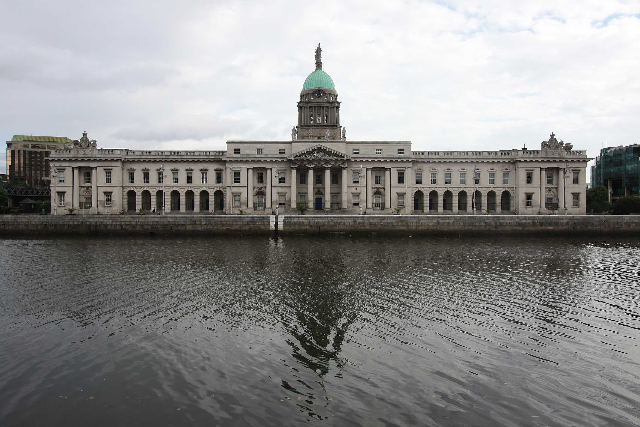 Dublin Custom House